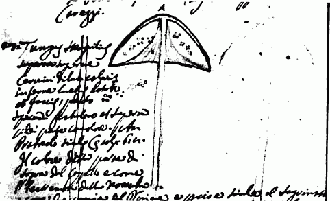 Drawing illustrated quaternate arrangement of basidiospores on the gill surface of Coprinus